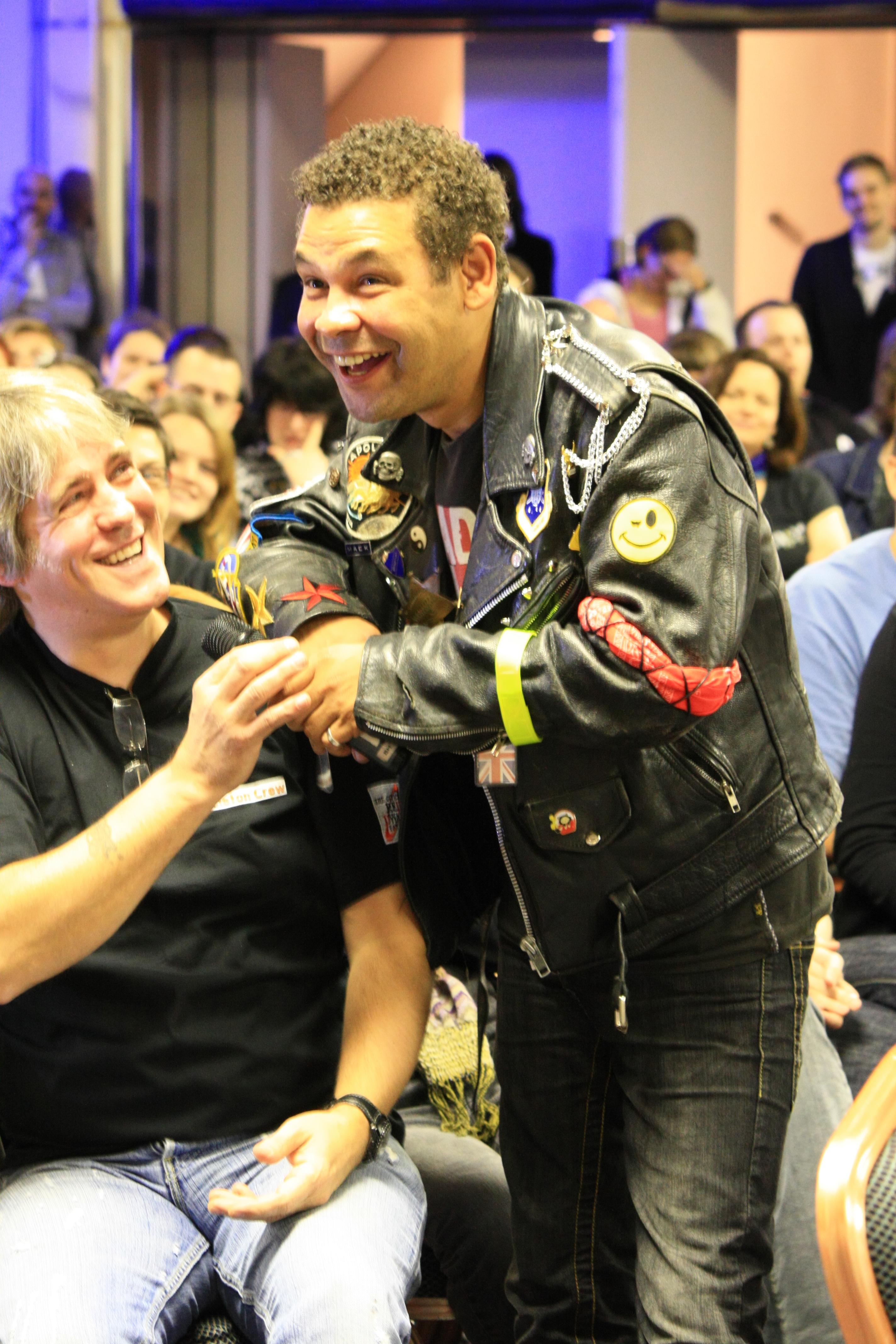 Craig Charles aka Dave Lister from Red Dwarf hamming it up at Dimension Jump XV, Birmingham UK. Wearing a fan's mock up of Lister's jacket and posing for a picture.